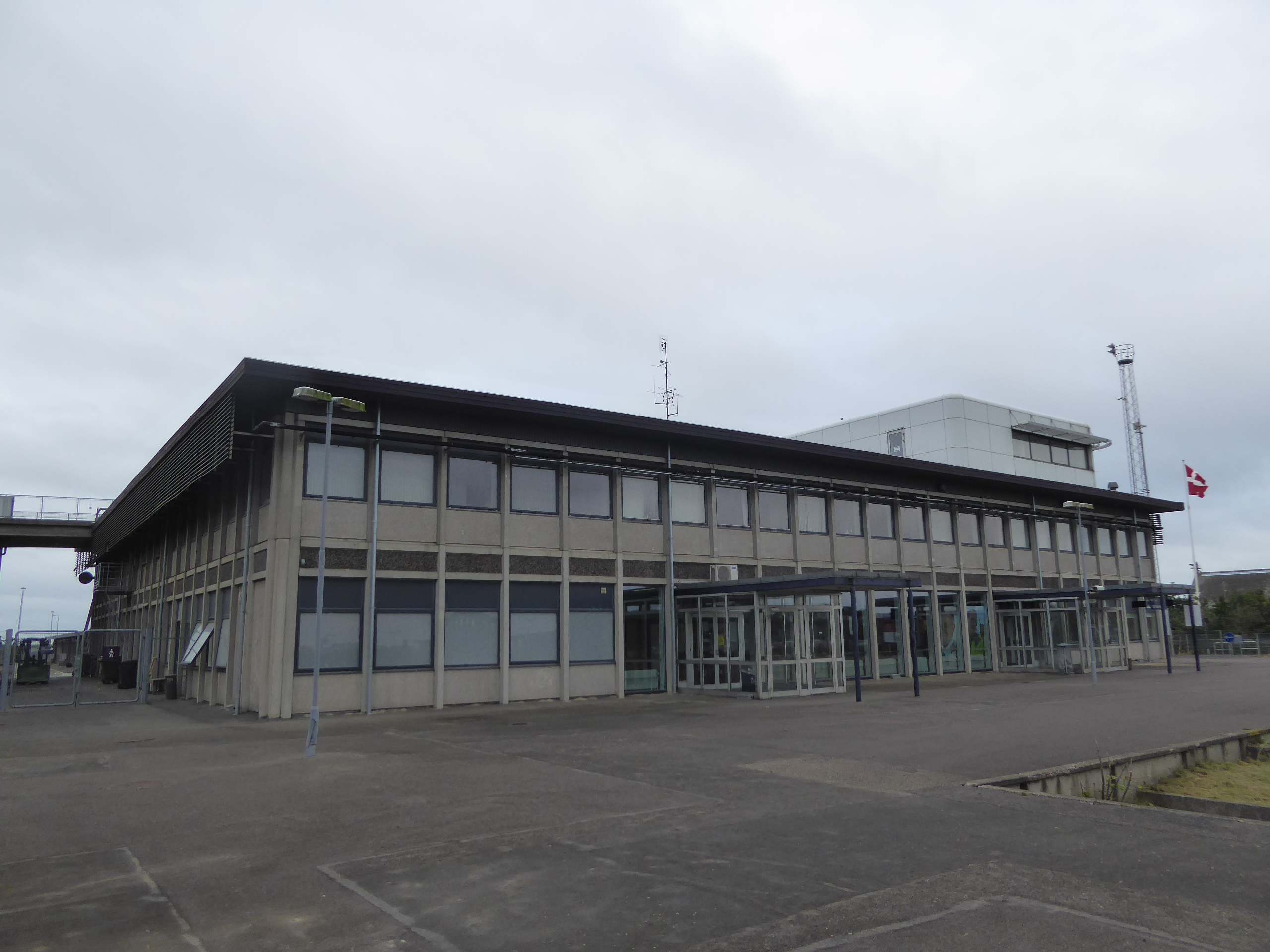 Rødby Færge Station on Lolland in Denmark.